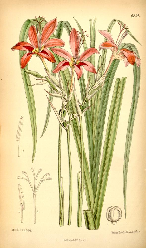 Illustration of Freesia grandiflora